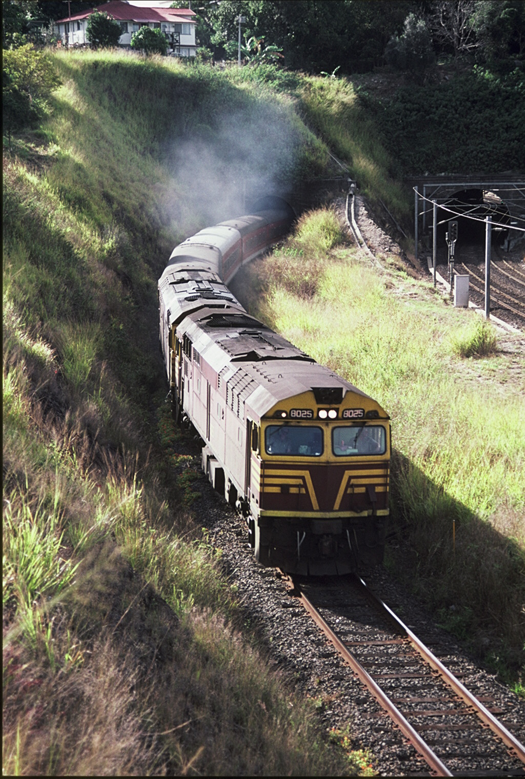 NSWR loco 8025 and another haul the Sydney bound 'Brisbane Limited' past the former Gloucester Rd station site, 1987.